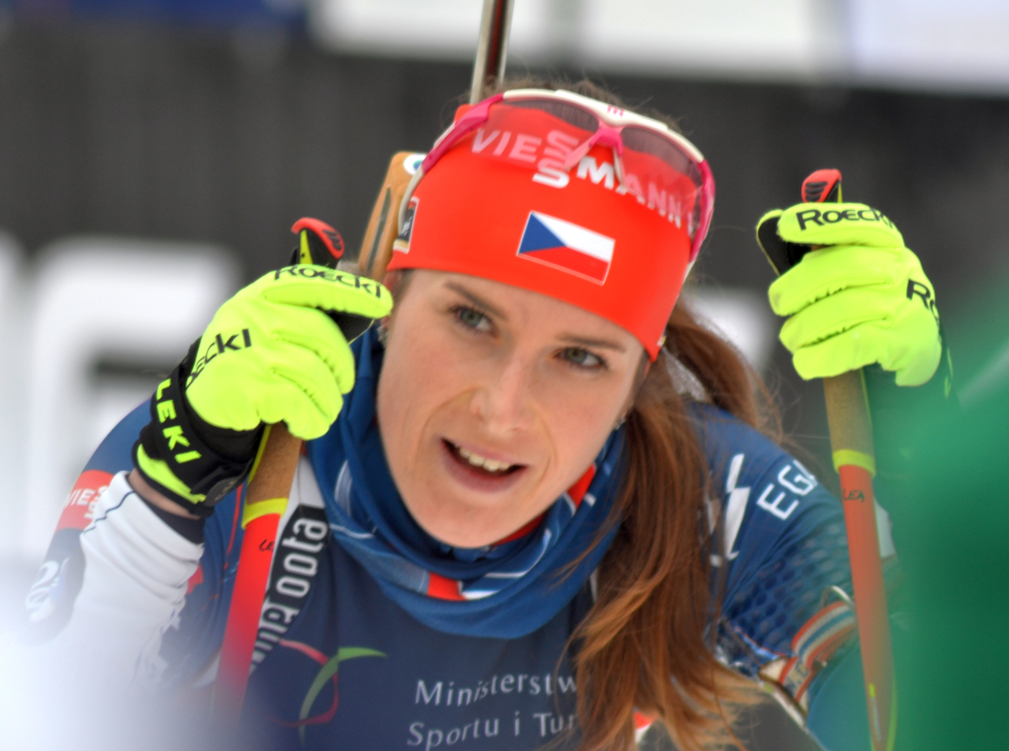 Open European Championships Biathlon 2017, Individual Women's race, held on January 25th.